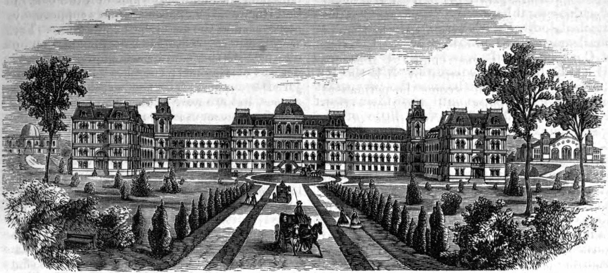 Woodcut/drawing of the campus of Vassar College.